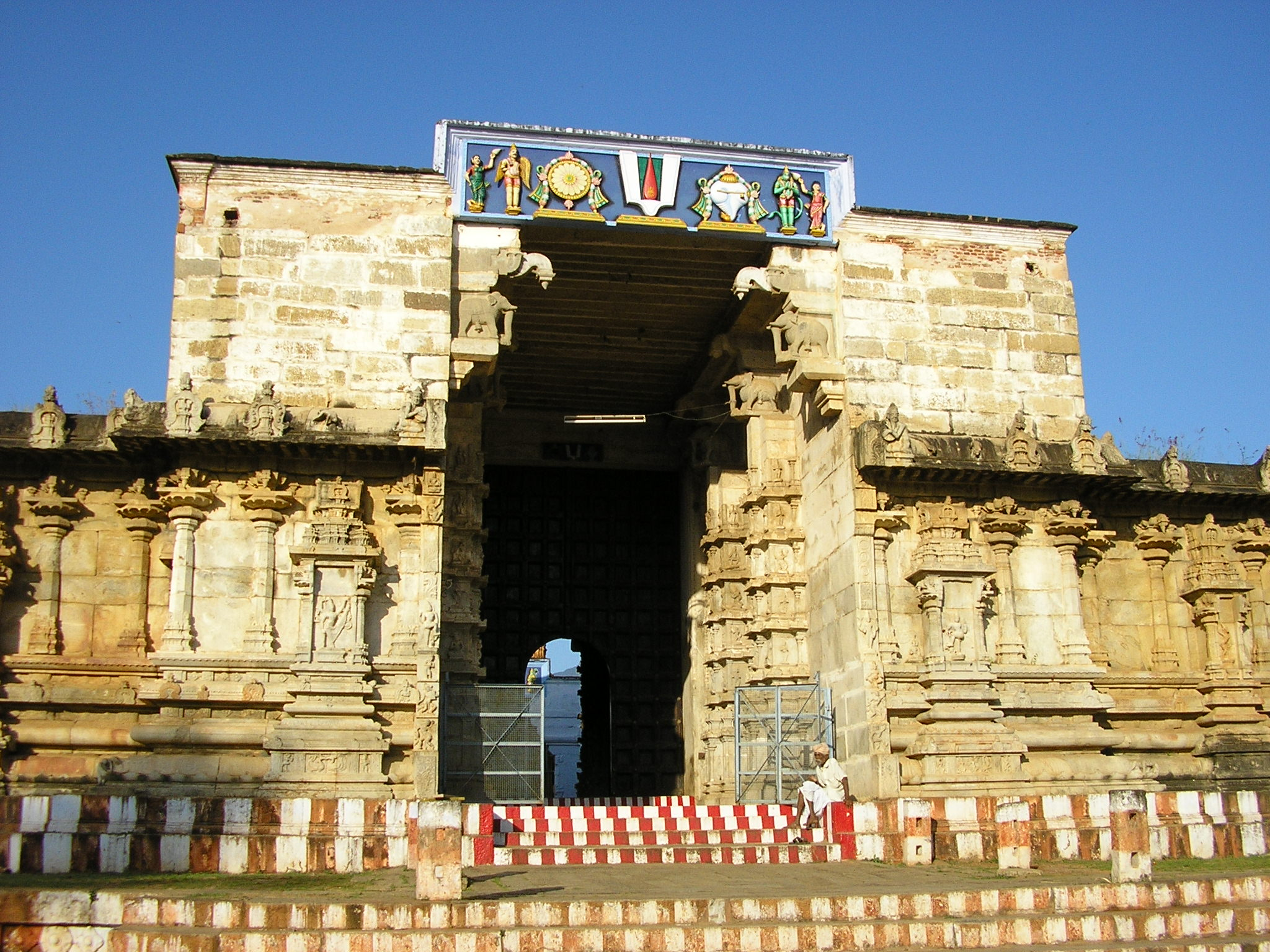 This is a picture of the entrance to the Thirukarungudi Nambi Temple. I took this picture using my own camera.